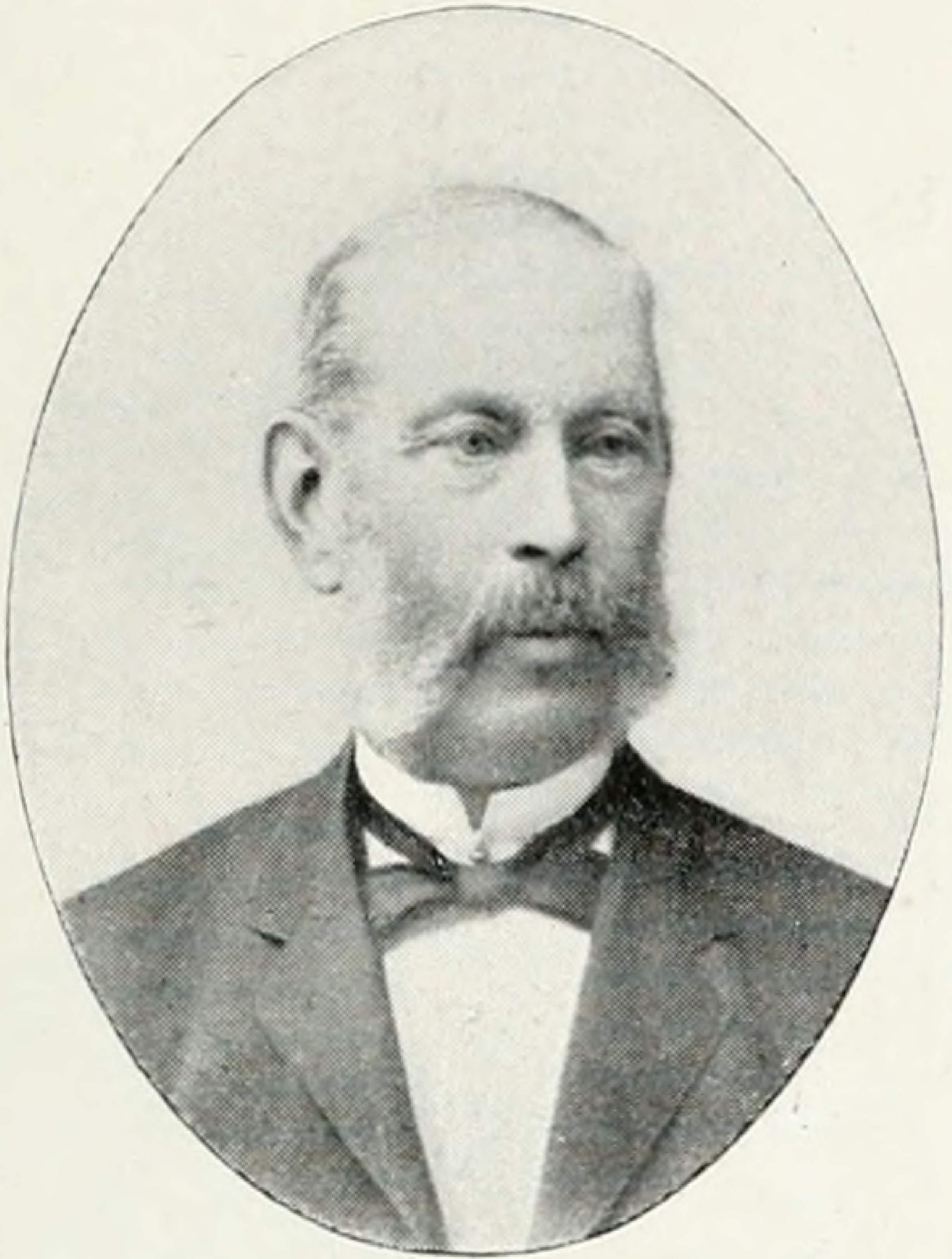 Edvard Casparsson (1827-1899), Swedish politican